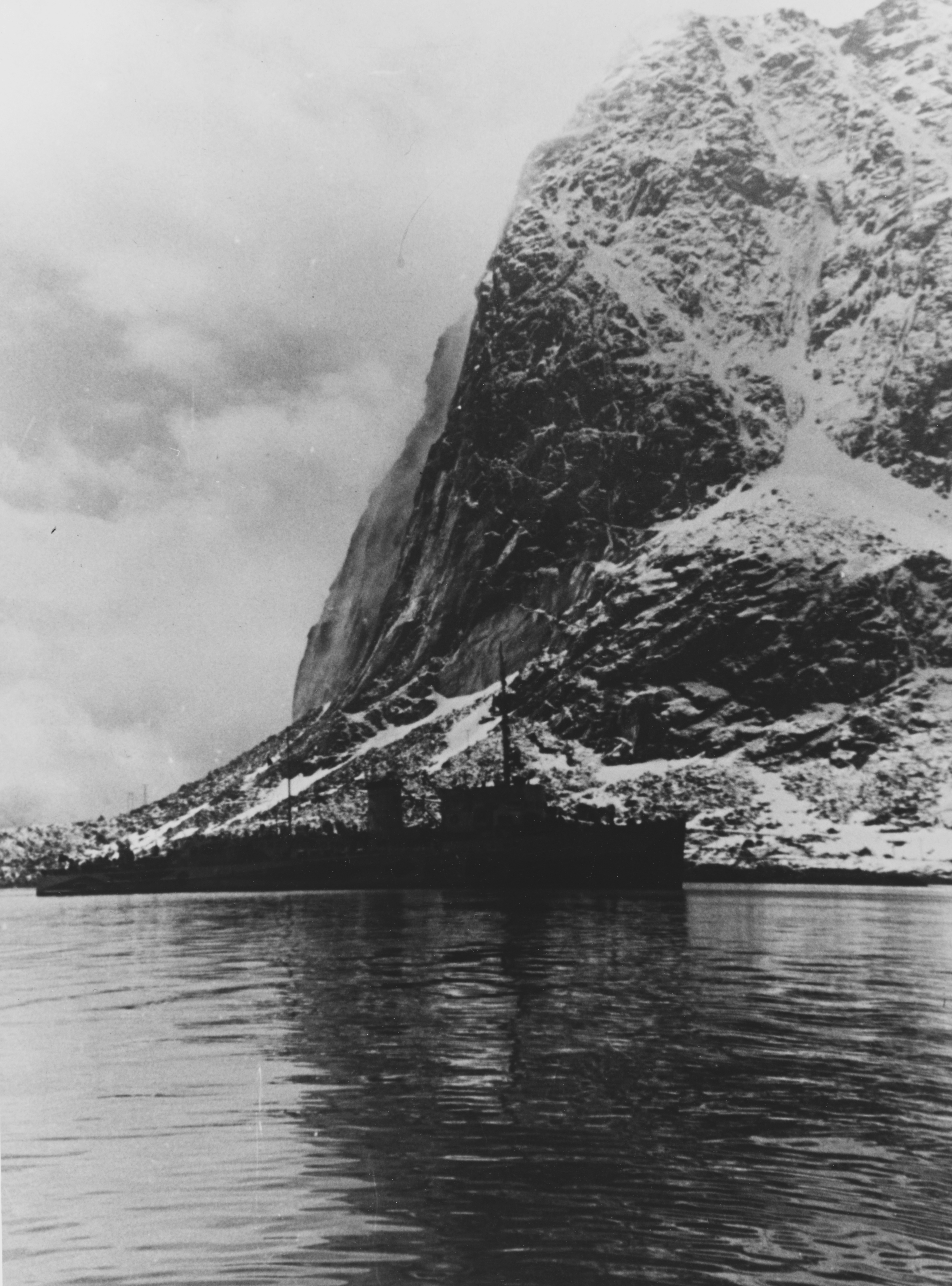 The German minesweeper tender Weser anchored off the Norwegian artic coast during the Second World War, with motor minesweepers alongside. The Weser was commissioned as an offshore patrol vessel on 14 November 1931. She was converted to a tender for minesweepers in September-October 1939 and served in that role until 1953, 1945 to 1953 under British command (albeit with a German crew). Weser was scrapped in the Netherlands in 1954. From 15 October 1940 to 8 May 1945, Weser was the tender of the 7. Räumbootsflottille (7th minesweeping flotilla). this unit operated from Kirkenes, Norway, after June 1941. In May 1945, Weser capitulated in Tromsø.